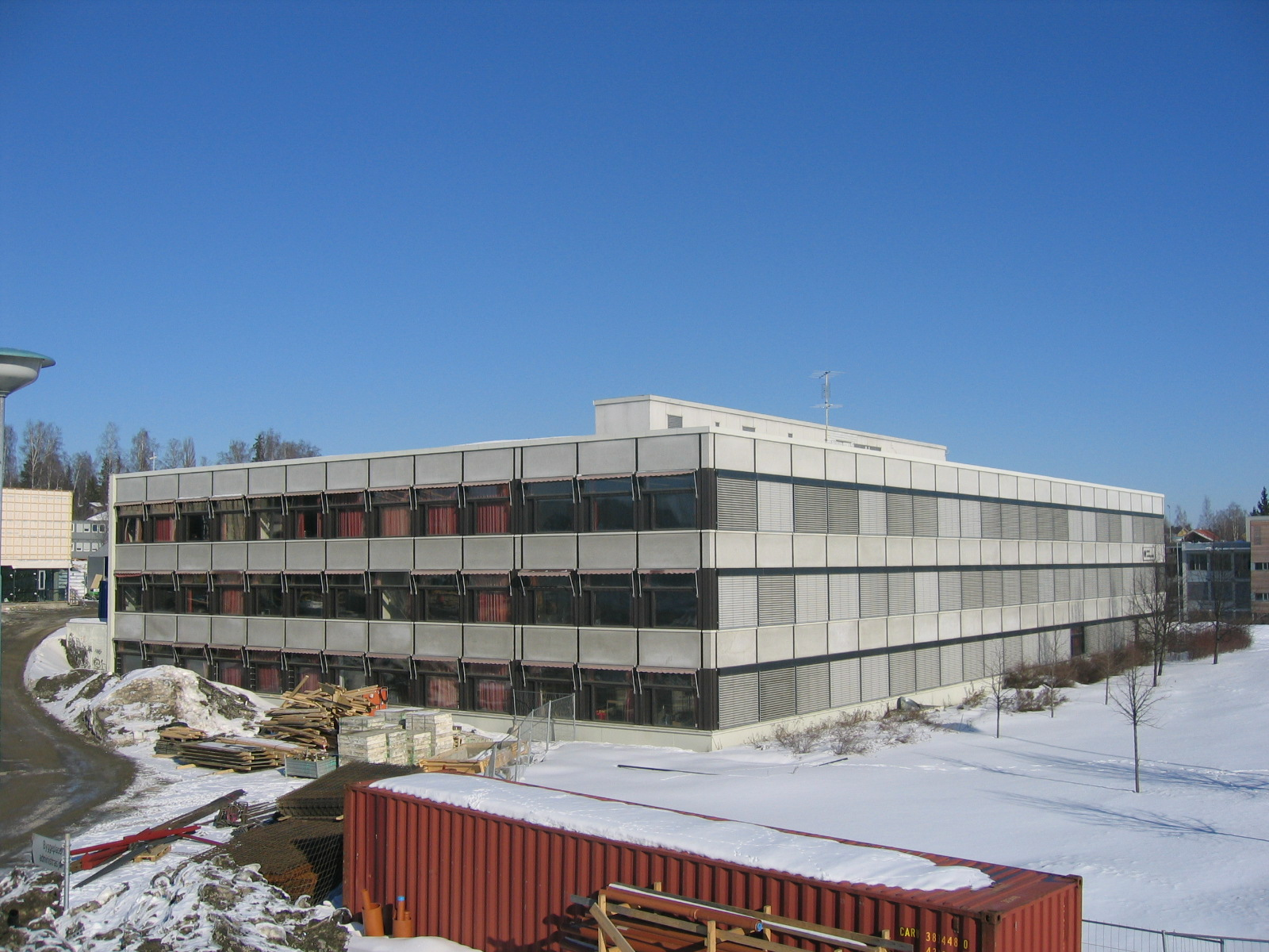 Hamar Cathedral School, Hamar, Hedmark, Norway. (Hamar High School).